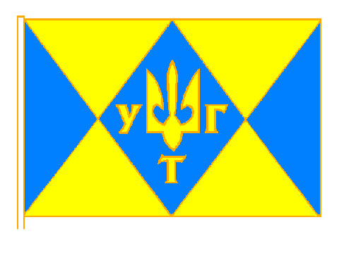 UHT flag